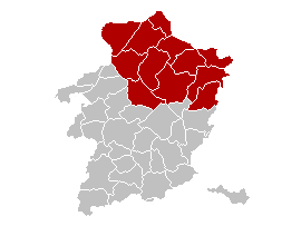 Map of the province Limburg, showing Maaseik arrondissement in red.